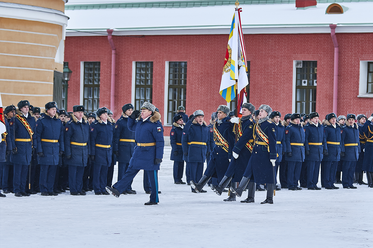 Handing the battle banner in 6th Air and Air Defense Forces Army